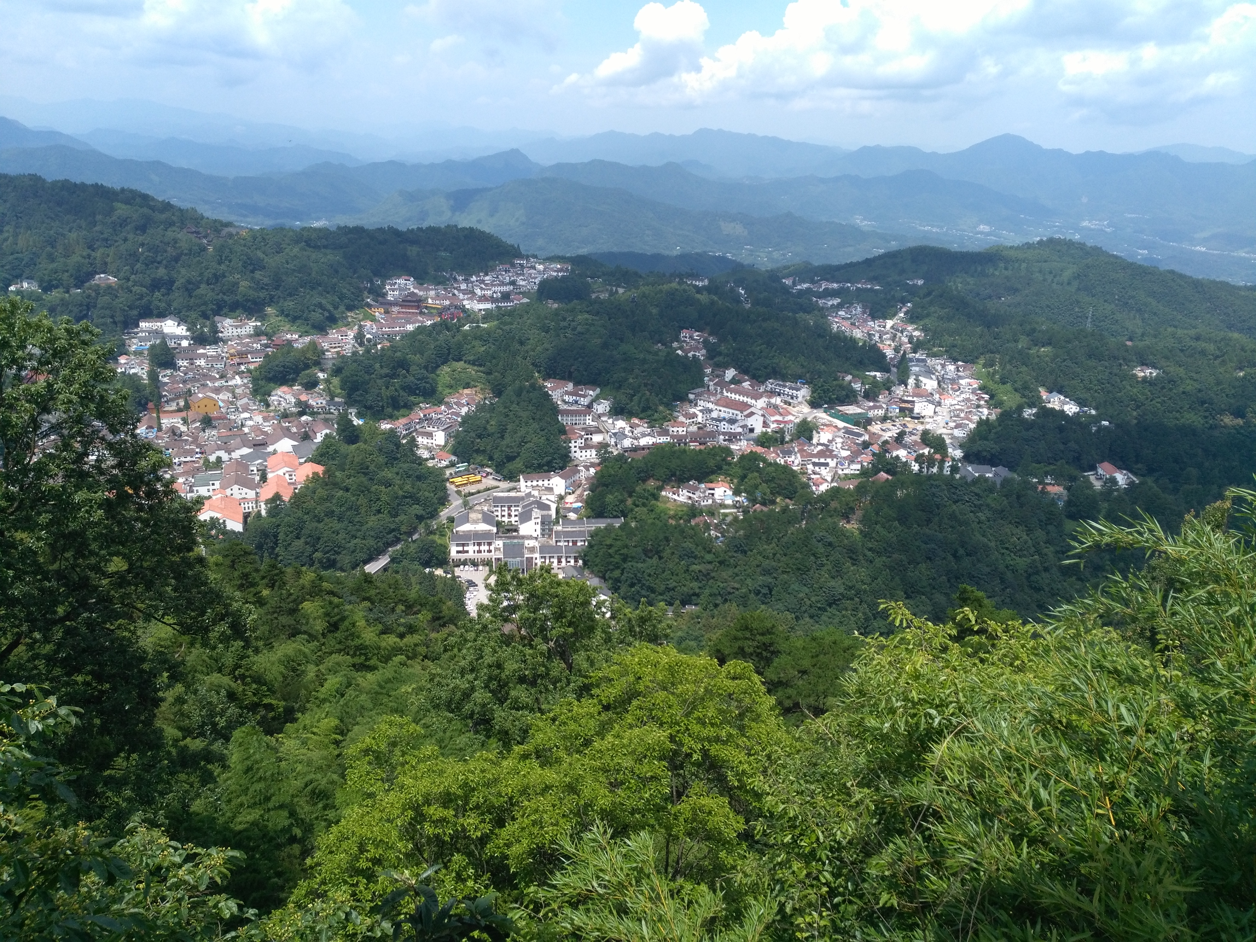 Overlooking Jiuhua Town from Baisui Palace